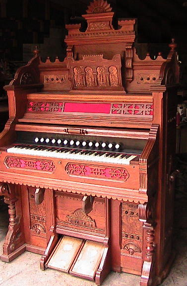 Walnut reed organ. John Church and Co, Cincinnati, Ohio. late 1800s.